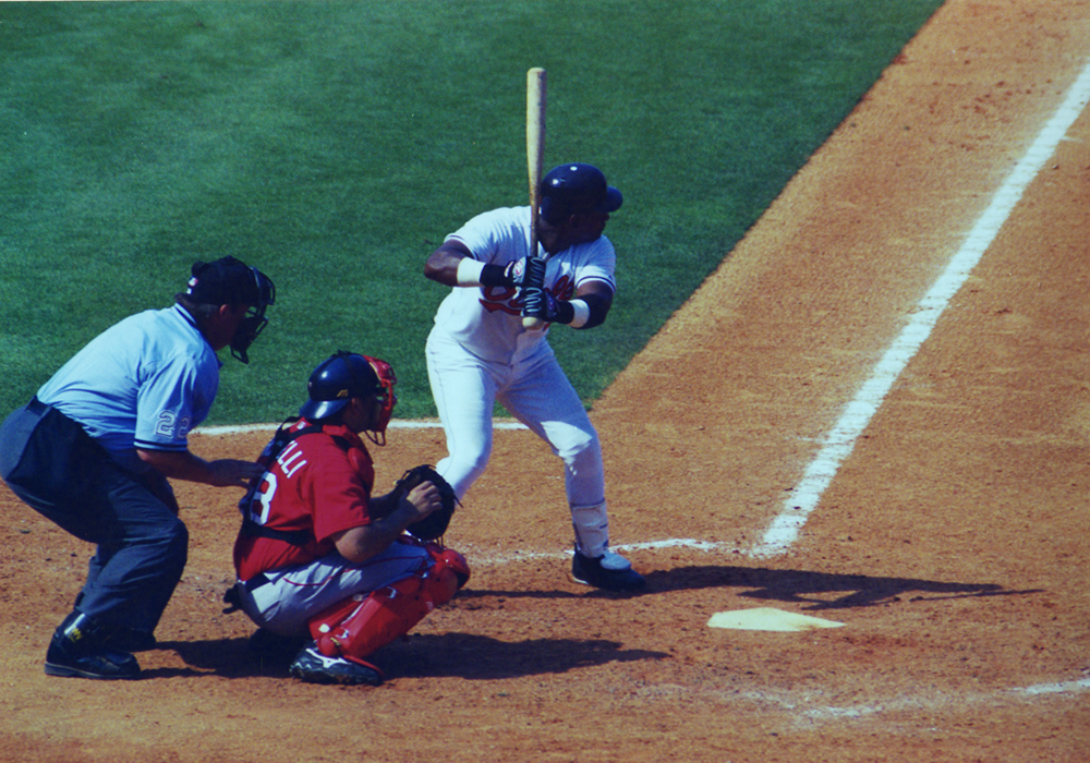 Sammy Sosa at bat for his new team, the Baltimore Orioles. Spring Training, 2005. 19:06, 17 April 2005 . . Googie man . . 1,000×700 (1.15 MB)